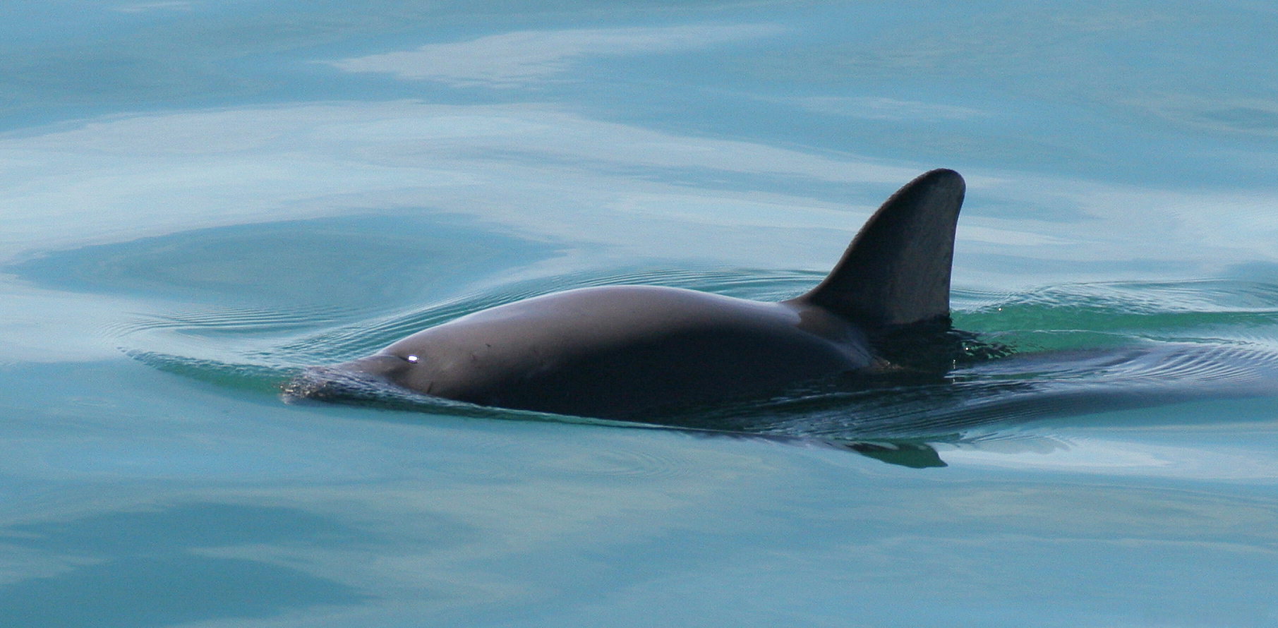 A vaquita. The vaquita (Phocoena sinus) is a critically endangered porpoise species endemic to the northern part of the Gulf of California. It is considered the smallest and most endangered cetacean in the world. Vaquita photo taken under permit (Oficio No. DR/488/08) from the Secretaria de Medio Ambiente y Recursos Naturales (SEMARNAT), within a natural protected area subject to special management and decreed as such by the Mexican Government. The original NOAA image has been modified by removal of a watermark.